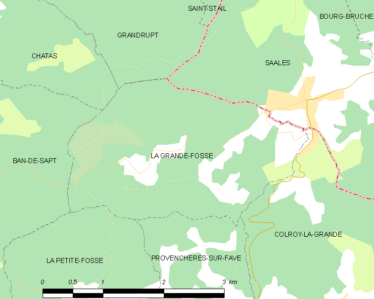 Map of French municipality La Grande-Fosse